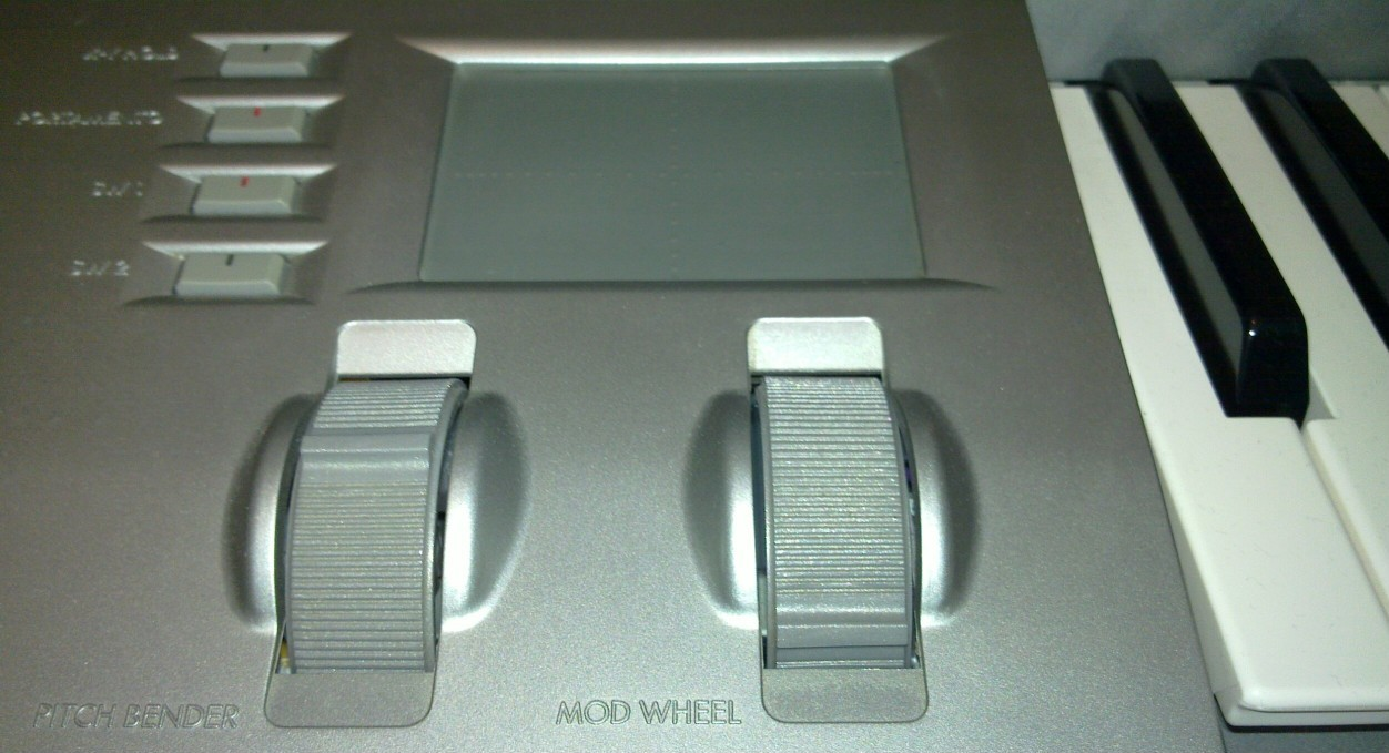 The wheel and ribbon controllers plus four switches of a Korg Z1 synthesizer